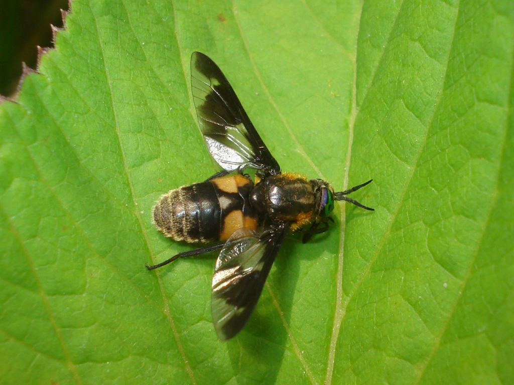 Chrysops caecutiens